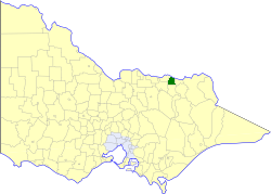 Location of the Shire of Bright within Victoria.